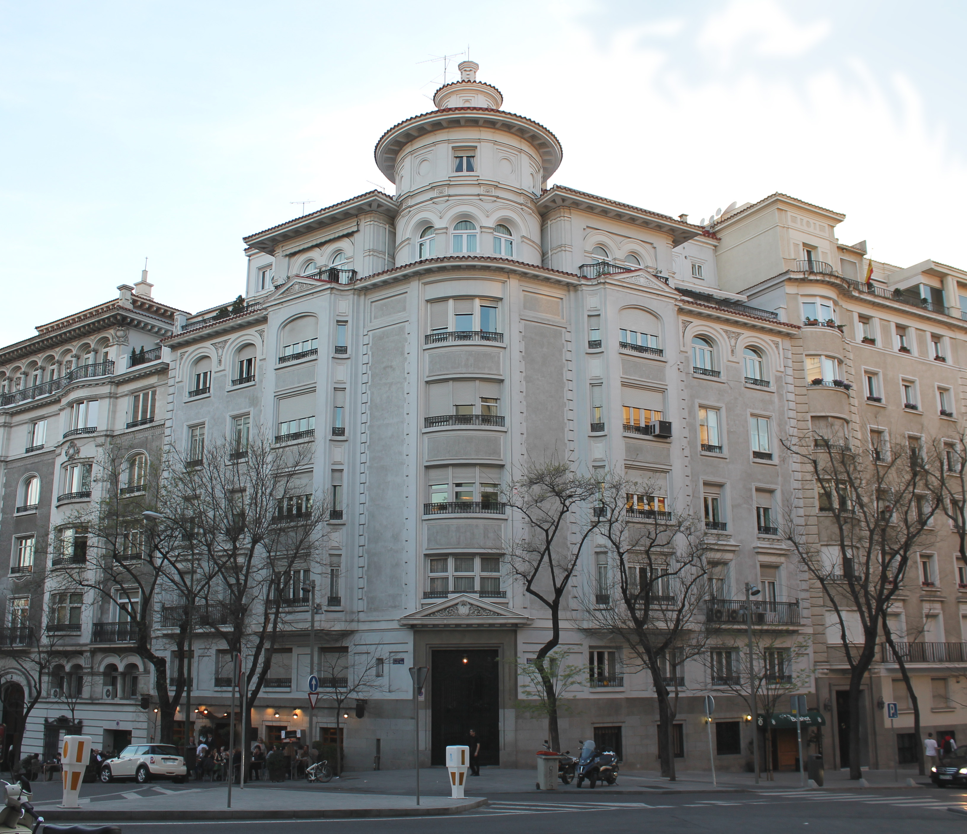 Building at 5th Calle del General Oráa (street) in Madrid (Spain). It was designed by Antonio Rubio Marín and built from 1925 to 1926.